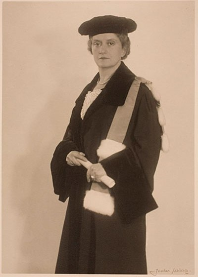 Sophia Antoniades (1895-1972), professor Greek literature in Leiden (1929-1955). Antoniadis was the first female professor at Leiden University. Photo taken around 1930